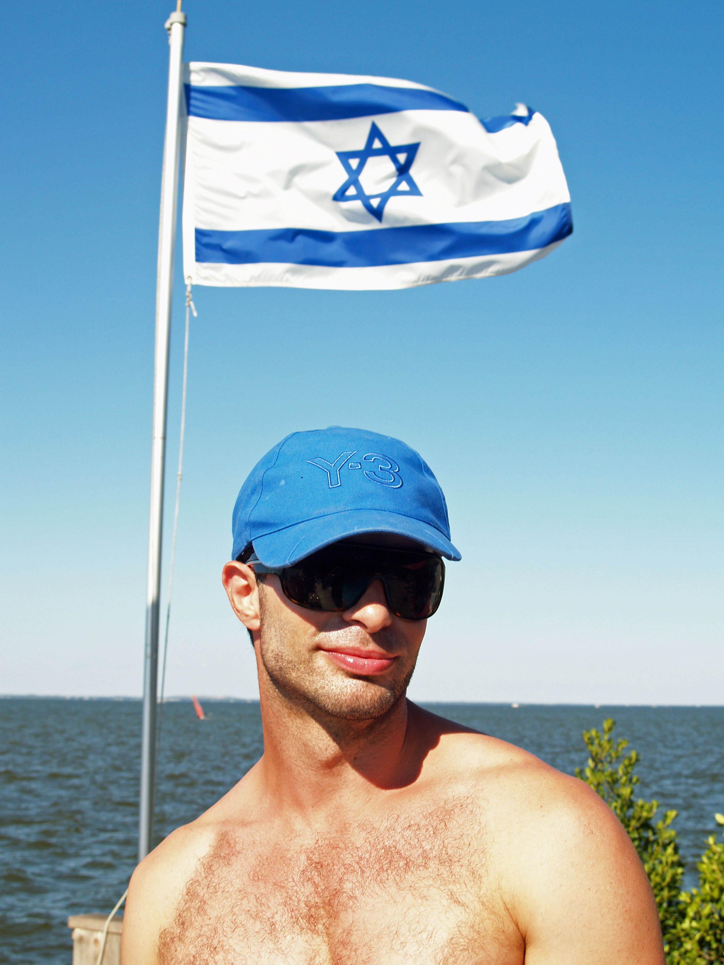 Michael Lucas at home on Fire Island Pines with an Israeli flag on his deck.